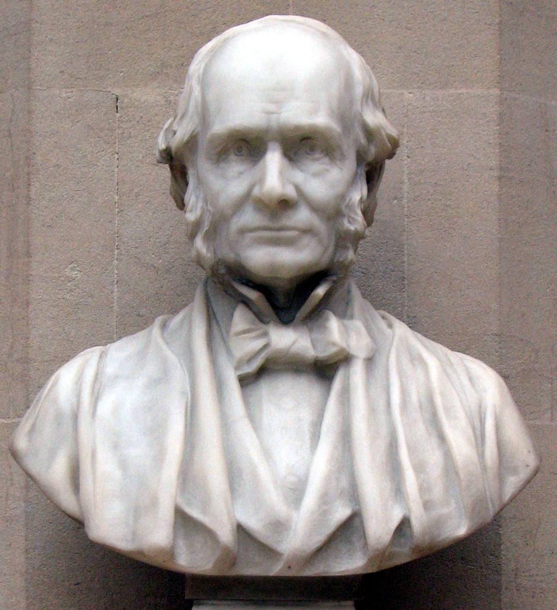 Joseph Prestwich, British geologist and former president of the Geological Society of London. Statue on permanent display in the Oxford University Museum of Natural History.